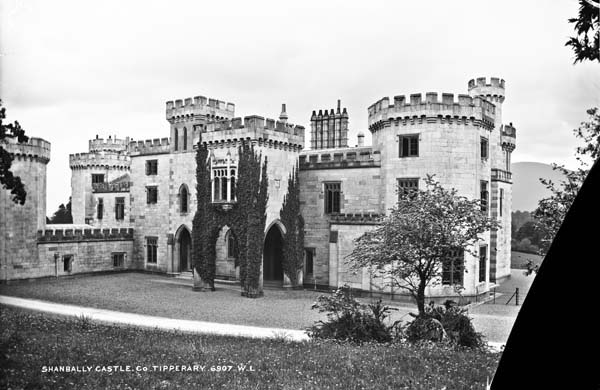 Depicted place: Shanbally Castle